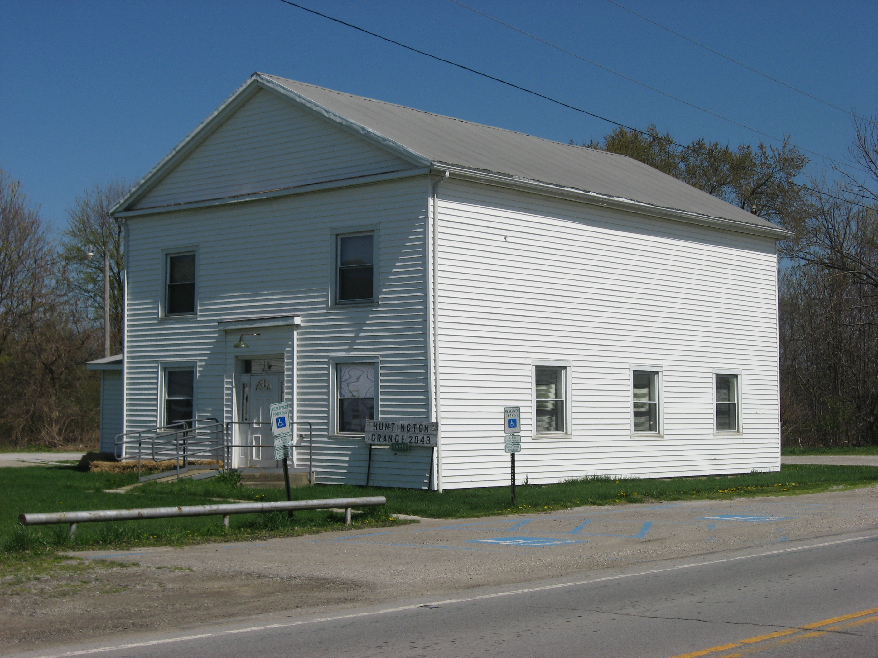 Front and southern side of the Huntington Grange, located on the northeastern corner of the junction of State Routes 58 and 162 at Huntington Center in Huntington Township, Lorain County, Ohio, United States. Built in 1842 and formerly a Baptist church, it is listed on the National Register of Historic Places.